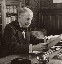 Clarence Gagnon - Photography: M.O. Hammond Collection, National Gallery of Canada Archives